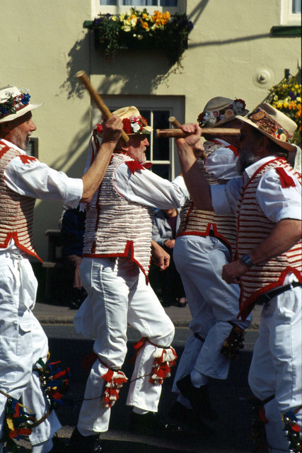 Morrismen at Thaxted Morris dancers perform outside the Swan Hotel. Thaxted is well known for its morris dancing - and this bank holiday performance drew a good crowd.